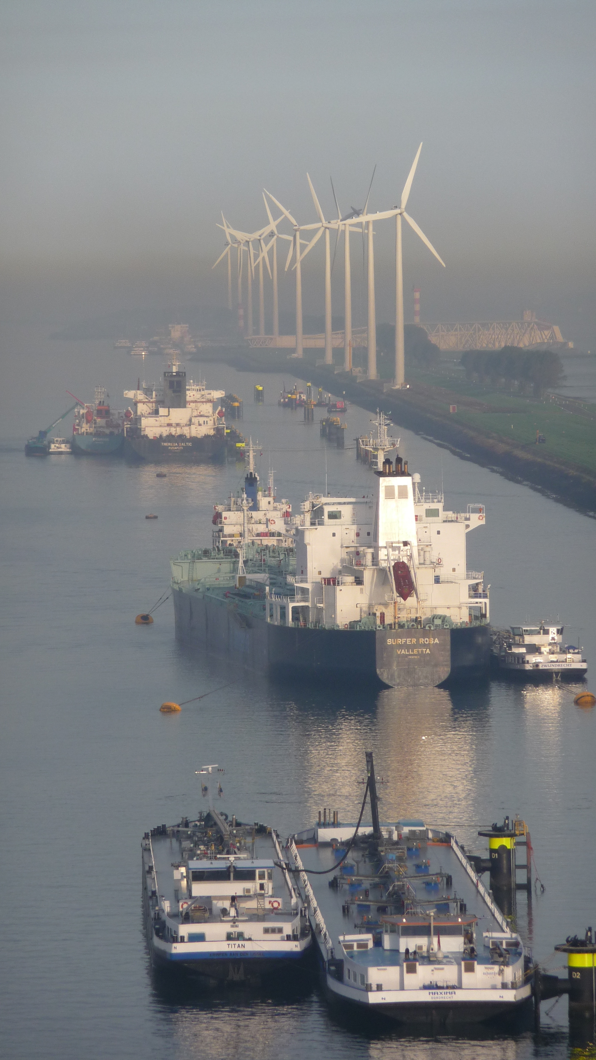 Caland Canal with part of the Maeslantkering in the background